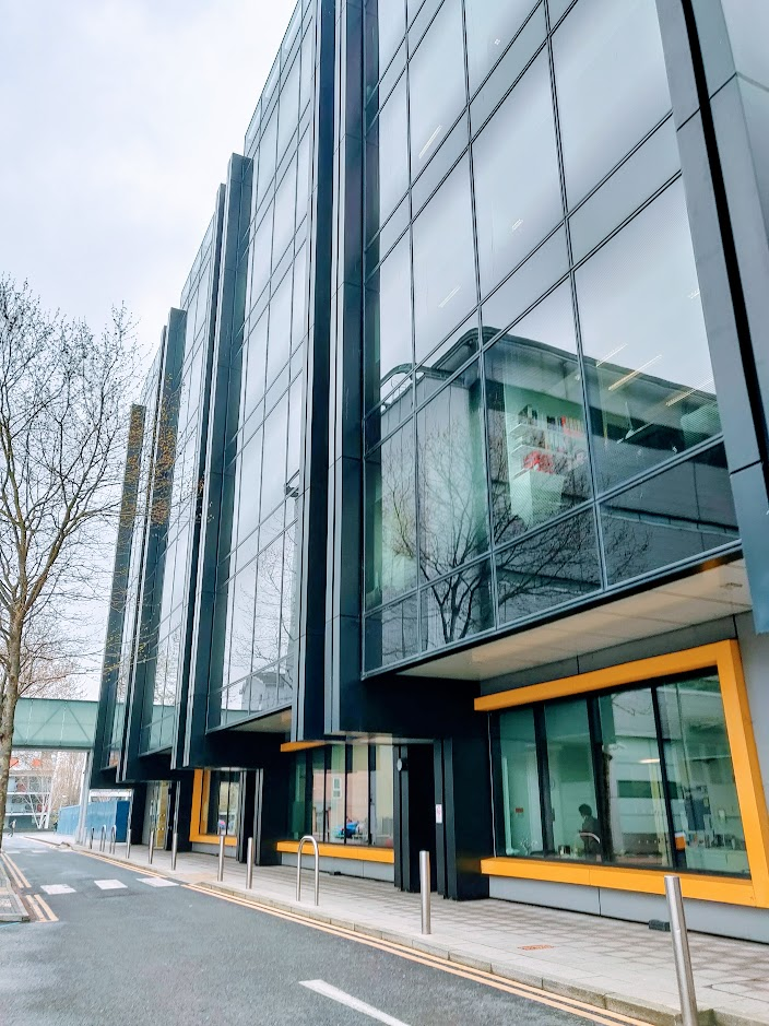 The Imperial Centre for Translational and Experimental Medicine is part of Imperial College at its Hammersmith Campus, as seen from the road which runs along its eastern side